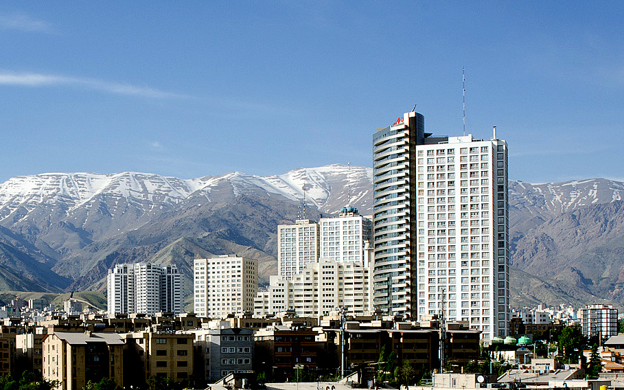 High-rises in Shahrak Gharb of Tehran and Alborz Mountains in background